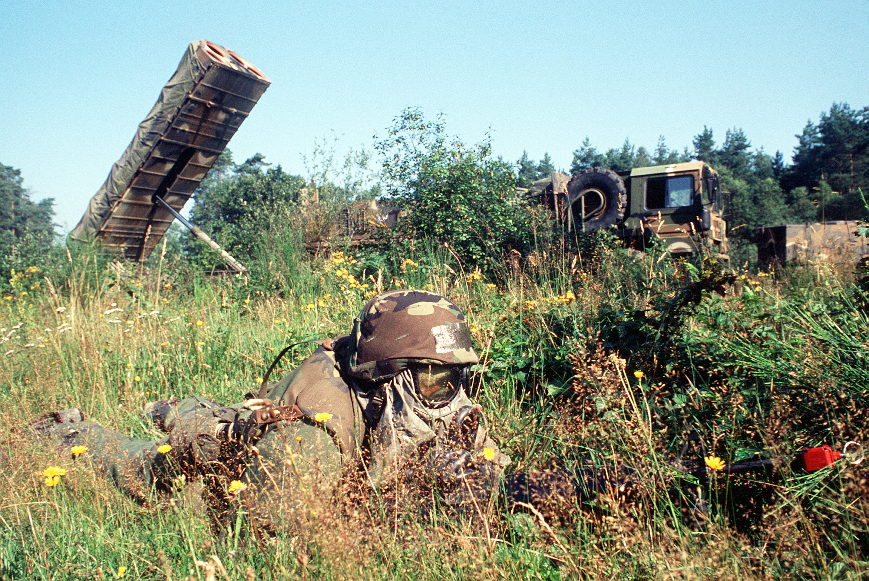 An airman wearing an M-17 gas mask maintains his security position as a transporter-erector-launcher (TEL) for the BGM-109G ground launched cruise missile stands in raised position as members of the 485th Tactical Missile Wing conduct a simulated launch. The TEL is pulled by an M-1014 German MAN tractor.